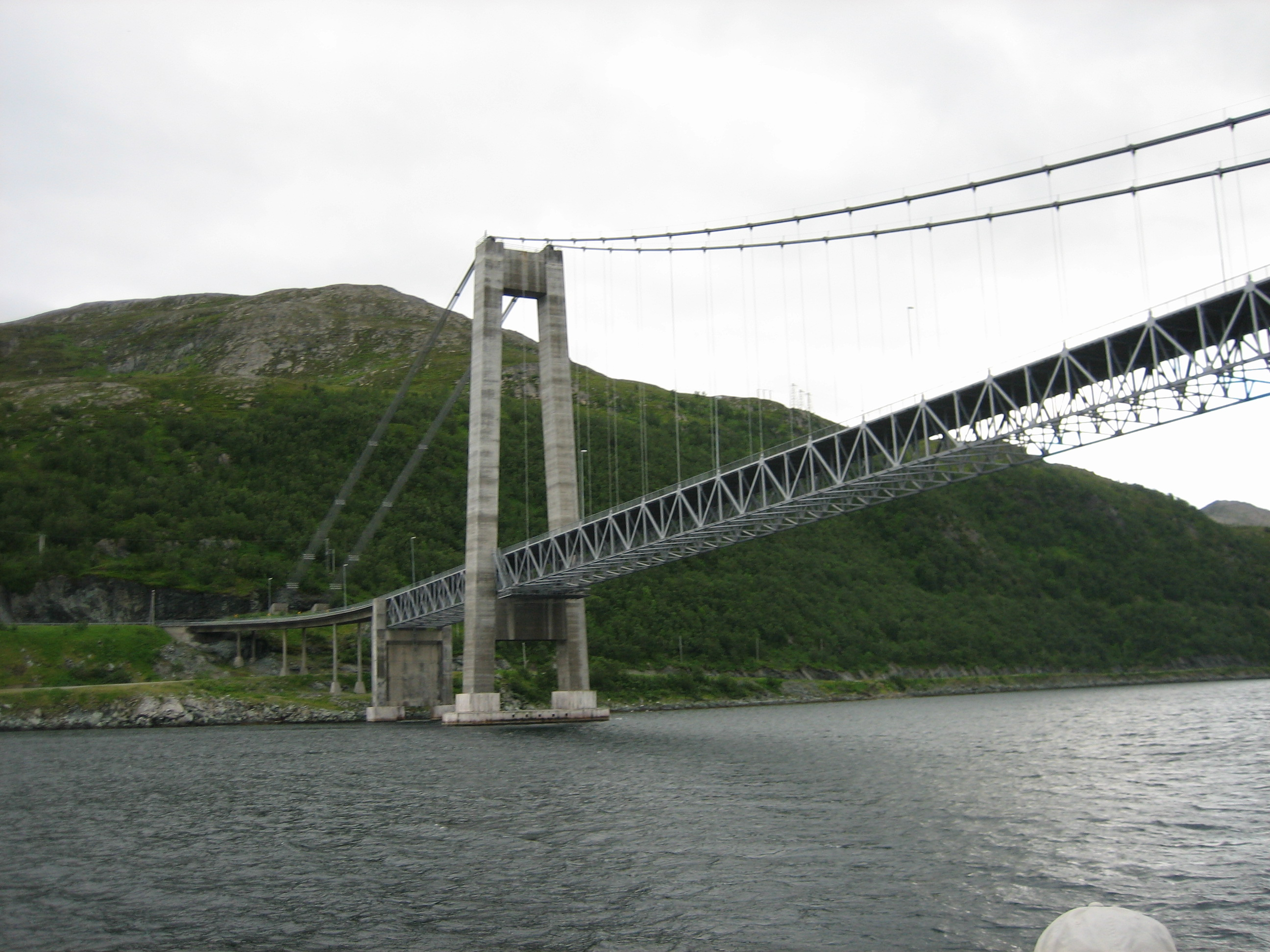 Kvalsund Bridge, taken from a boat in July 2006. Manxruler 14:37, 17 April 2007 (UTC)